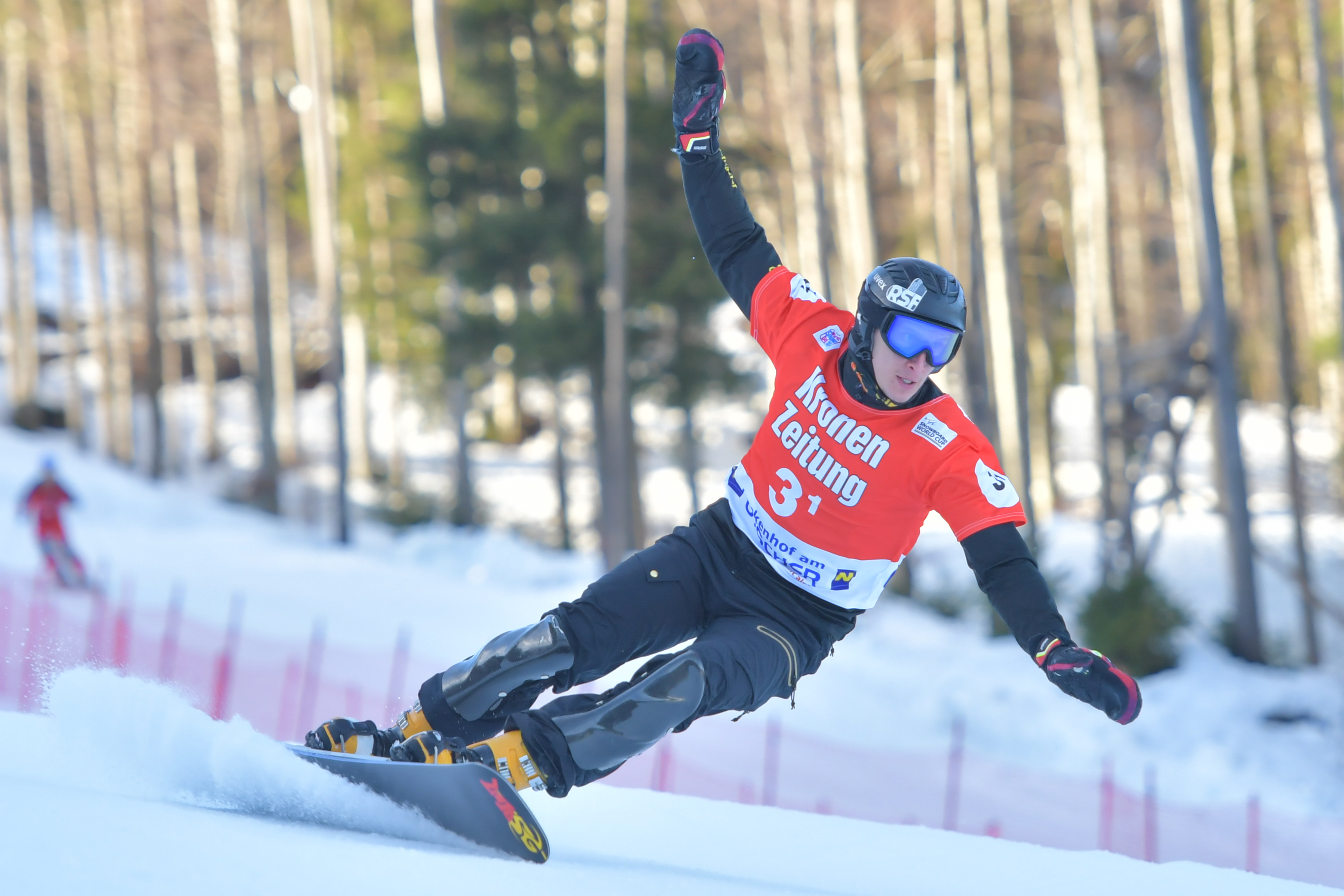 6/01/18, Lackenhof, Austria, Sport, winter sports, FIS Snowboard World Cup - Mixed-Team. Image shows Andrey SOBOLEV (RUS).